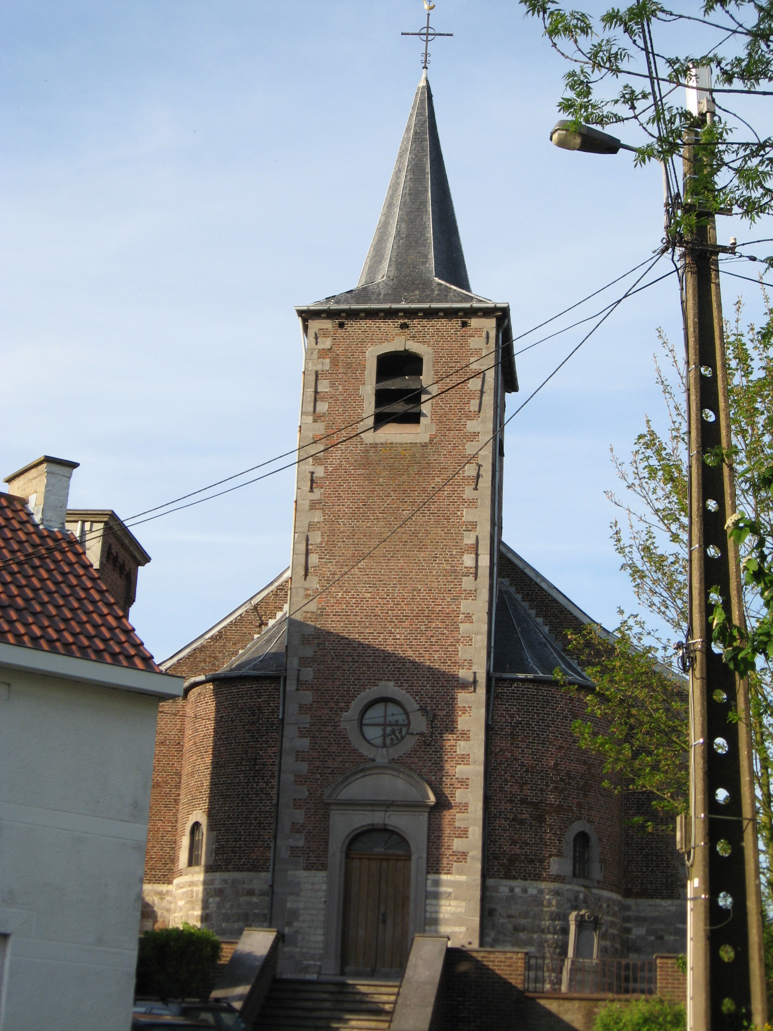 Church of Saint Remigius in Merdorp, Hannut, Liège, Belgium